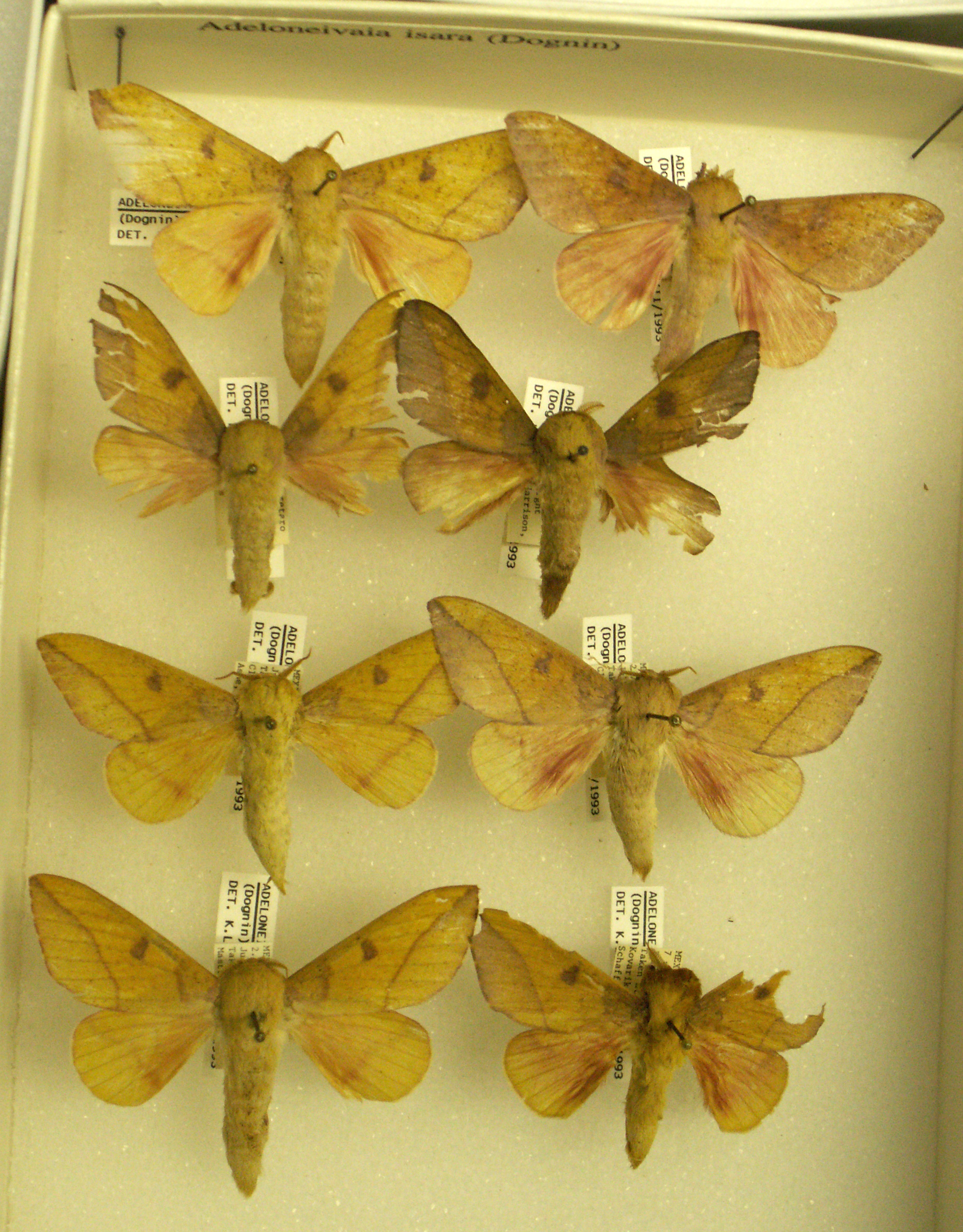 Adeloneivaia isara adult variation from the Texas A&M University Insect Collection